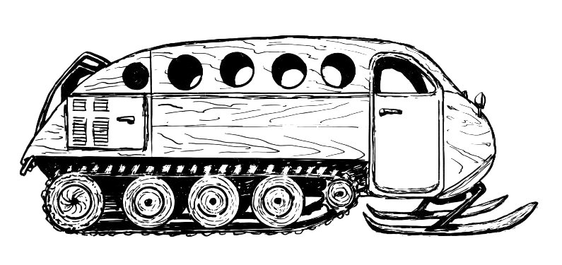 line art drawing of early Bombardier Snowmobile